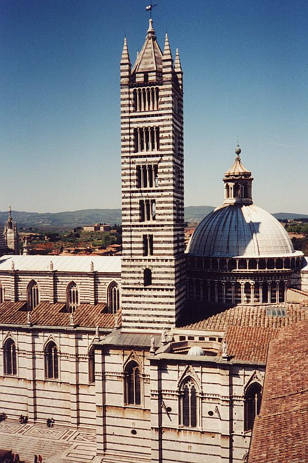 Large version on 1997-04-18